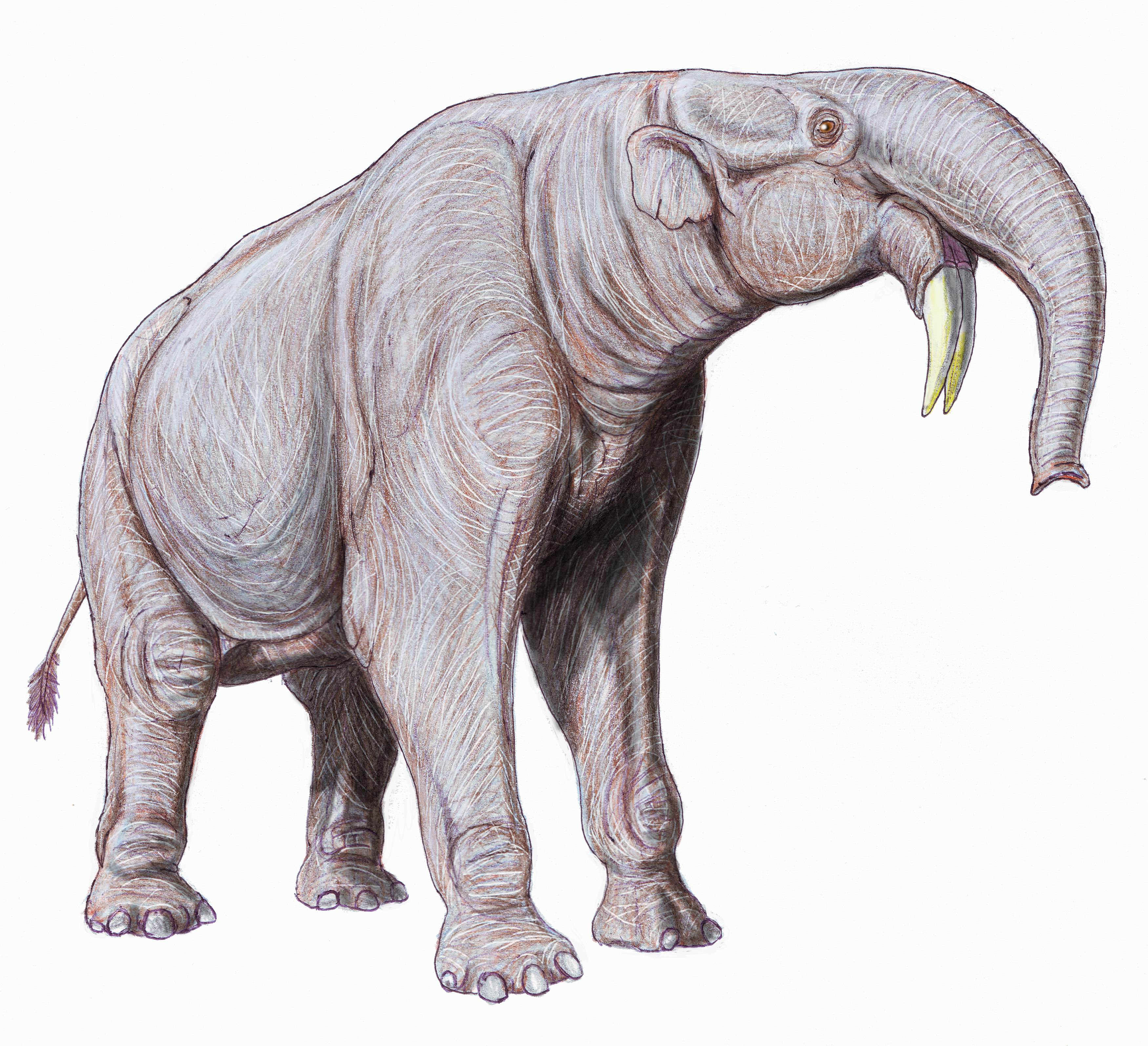 Deinotherium giganteum, based on photo of skeleton from Kiev museum.